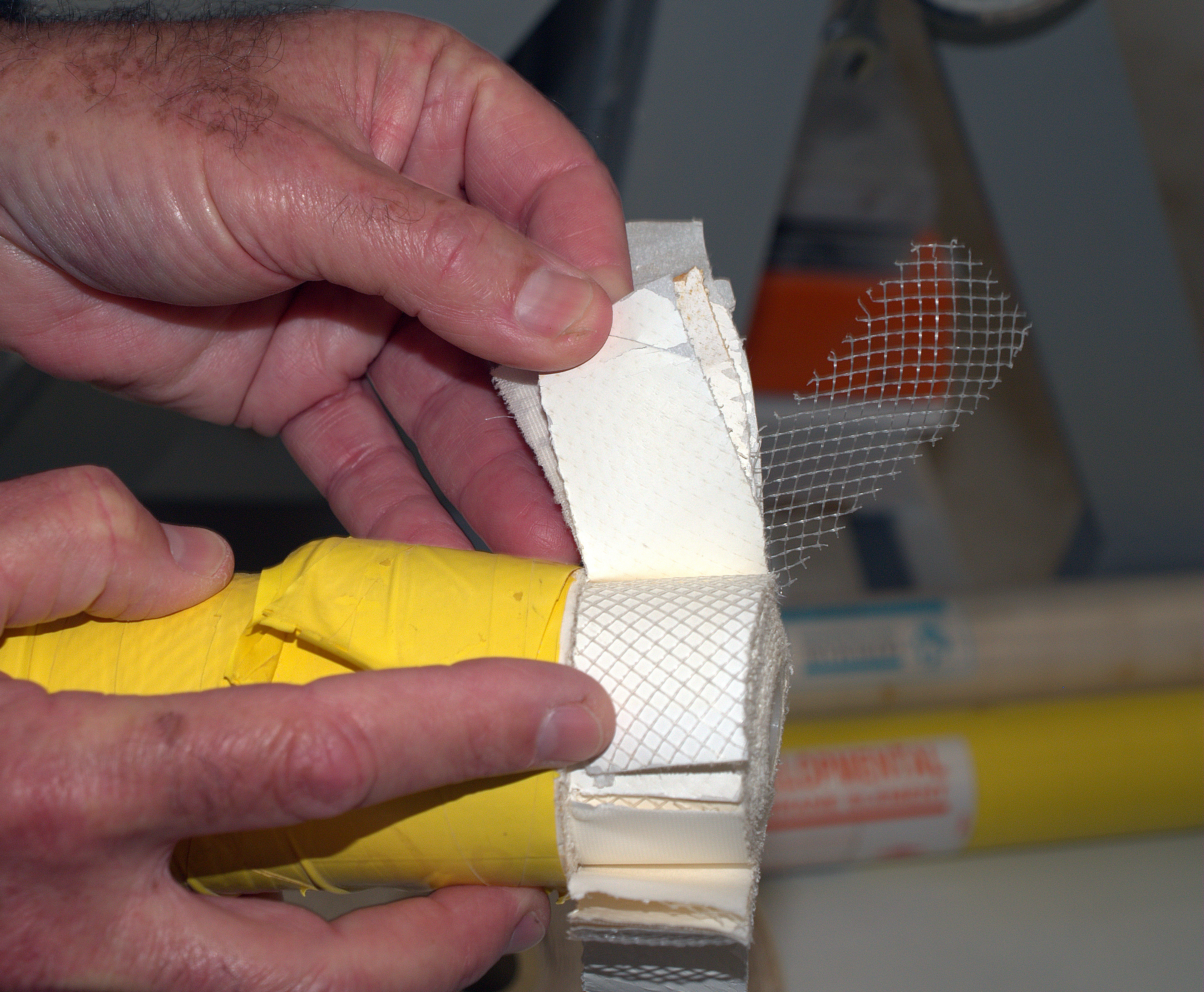 Reverse osmosis membrane element layers at the Jacob Blaustein Institutes for Desert Research in The Negev desert.